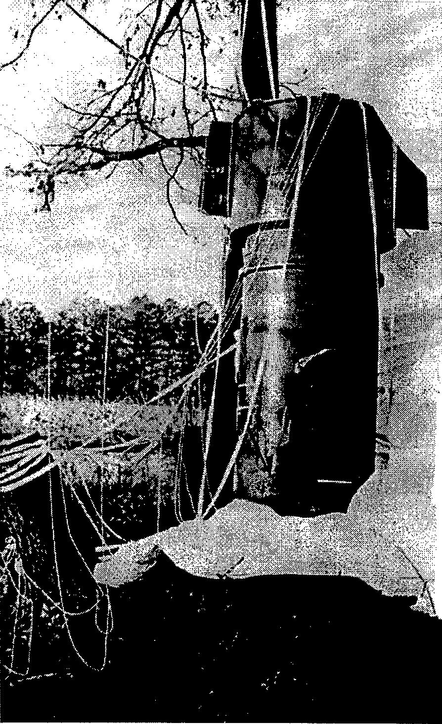 MK 39 nuclear bomb retrieved after the 1961 Goldsboro B-52 crash. The weapon's parachute deployed, resulting in a soft landing and the weapon being recovered intact.